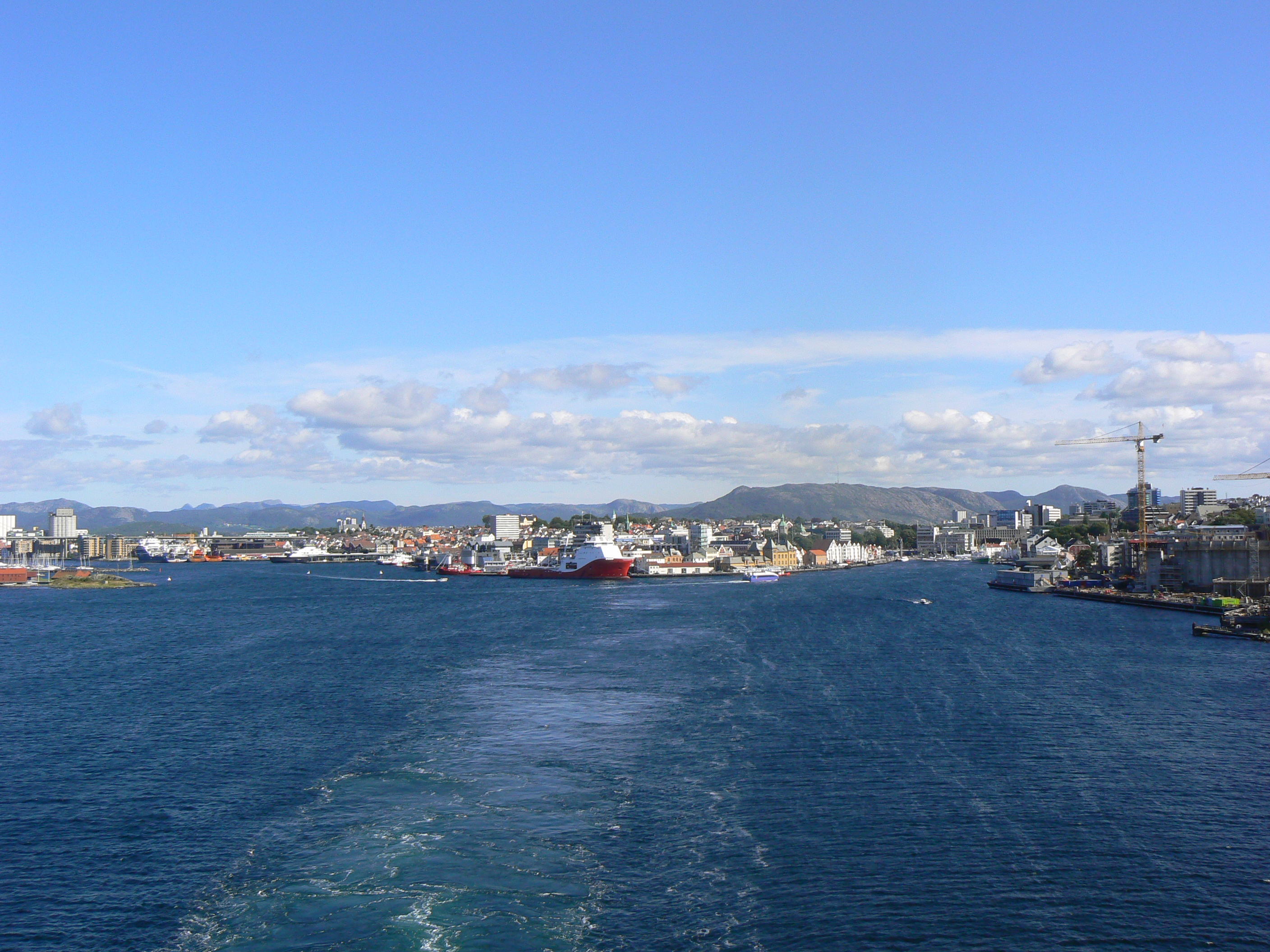 Stavanger